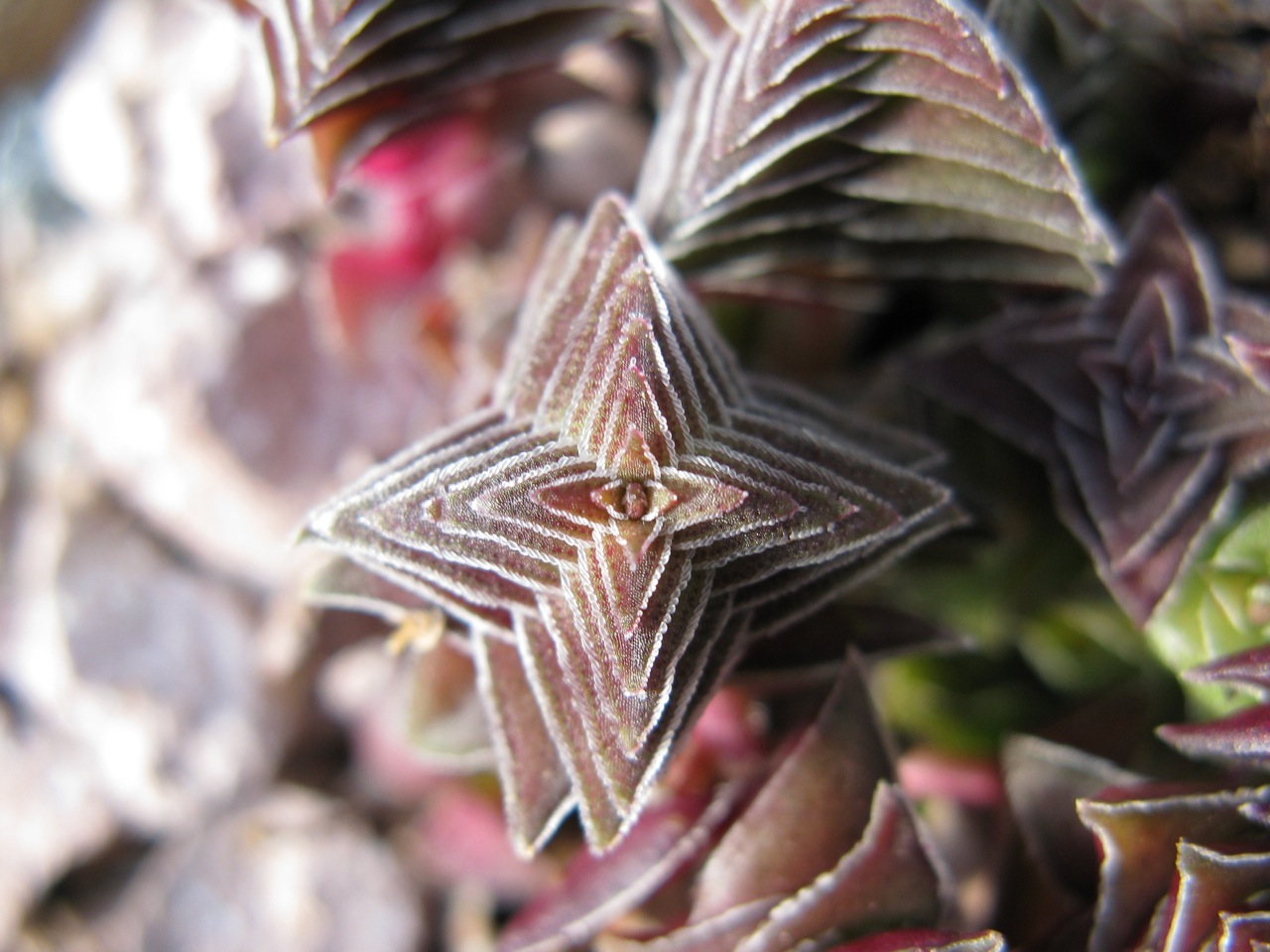 Crassula capitella subsp. thyrsiflora. Dwarf form of this highly variable species. Photographed at the Huntington gardens, Los Angeles